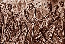 Otto II appoints a bishop.